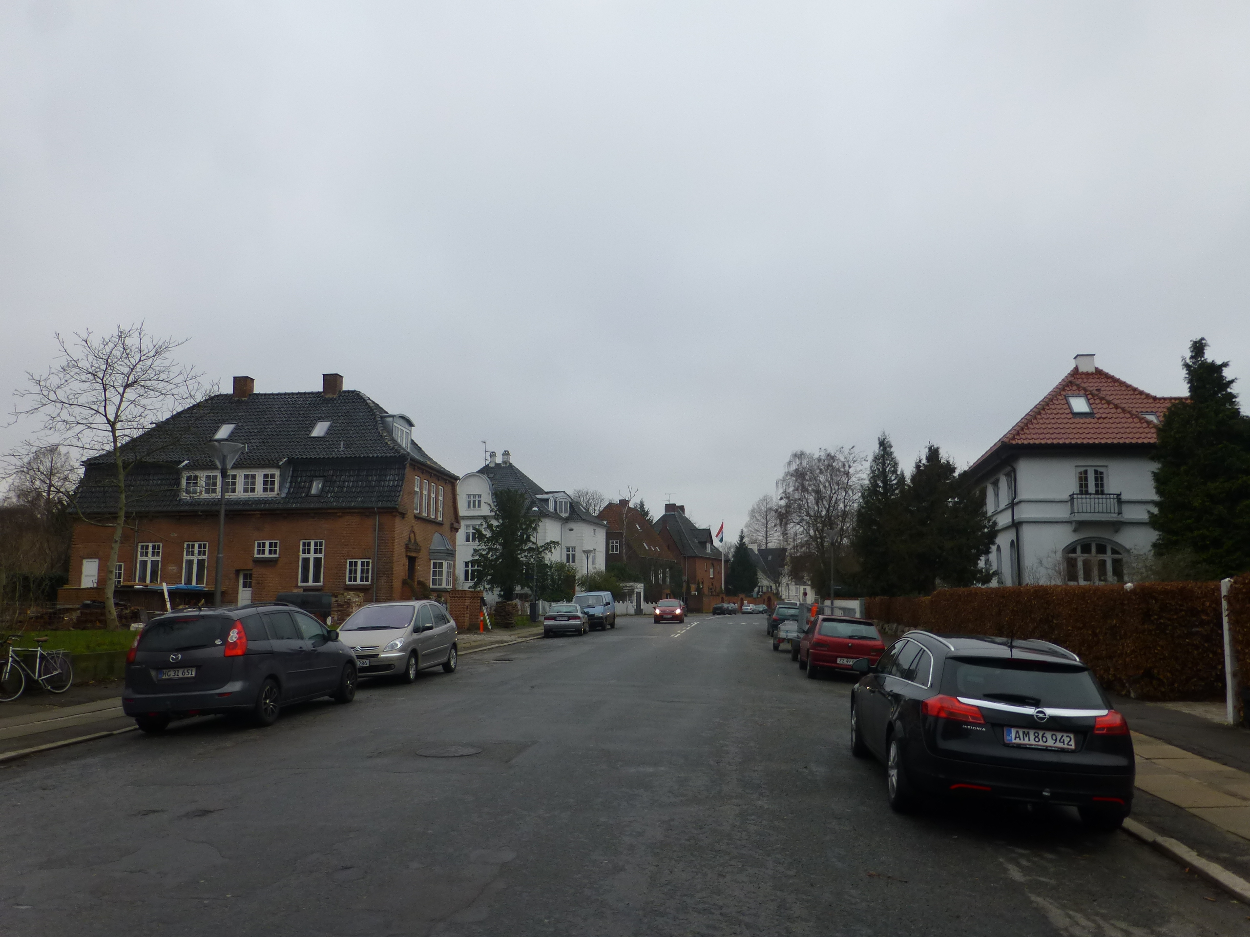 The street Vangehusvej in Østerbro in Copenhagen.